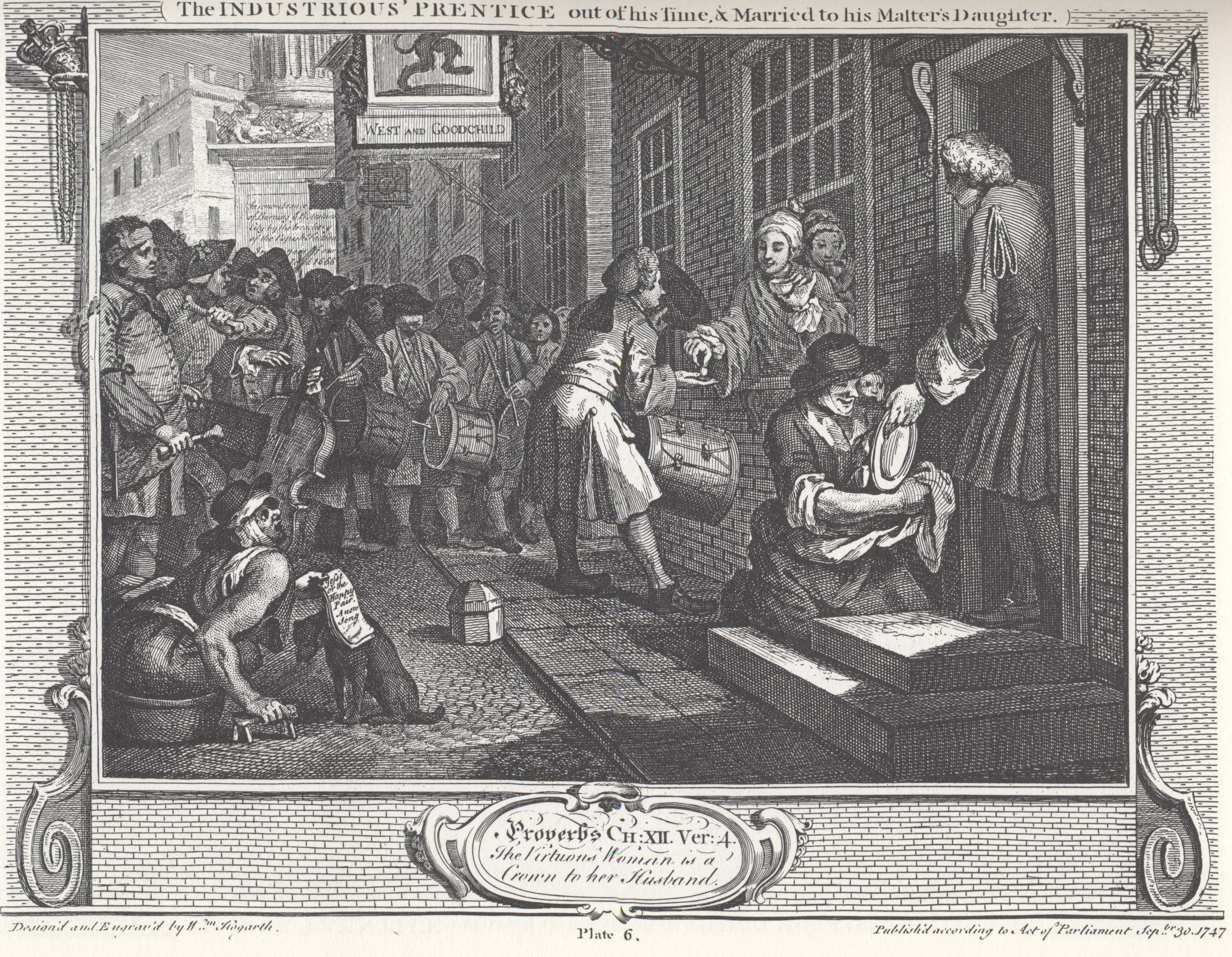 William Hogarth - Industry and Idleness, Plate 6; The Industrious 'Prentice out of his Time, & Married to his Master's Daughter